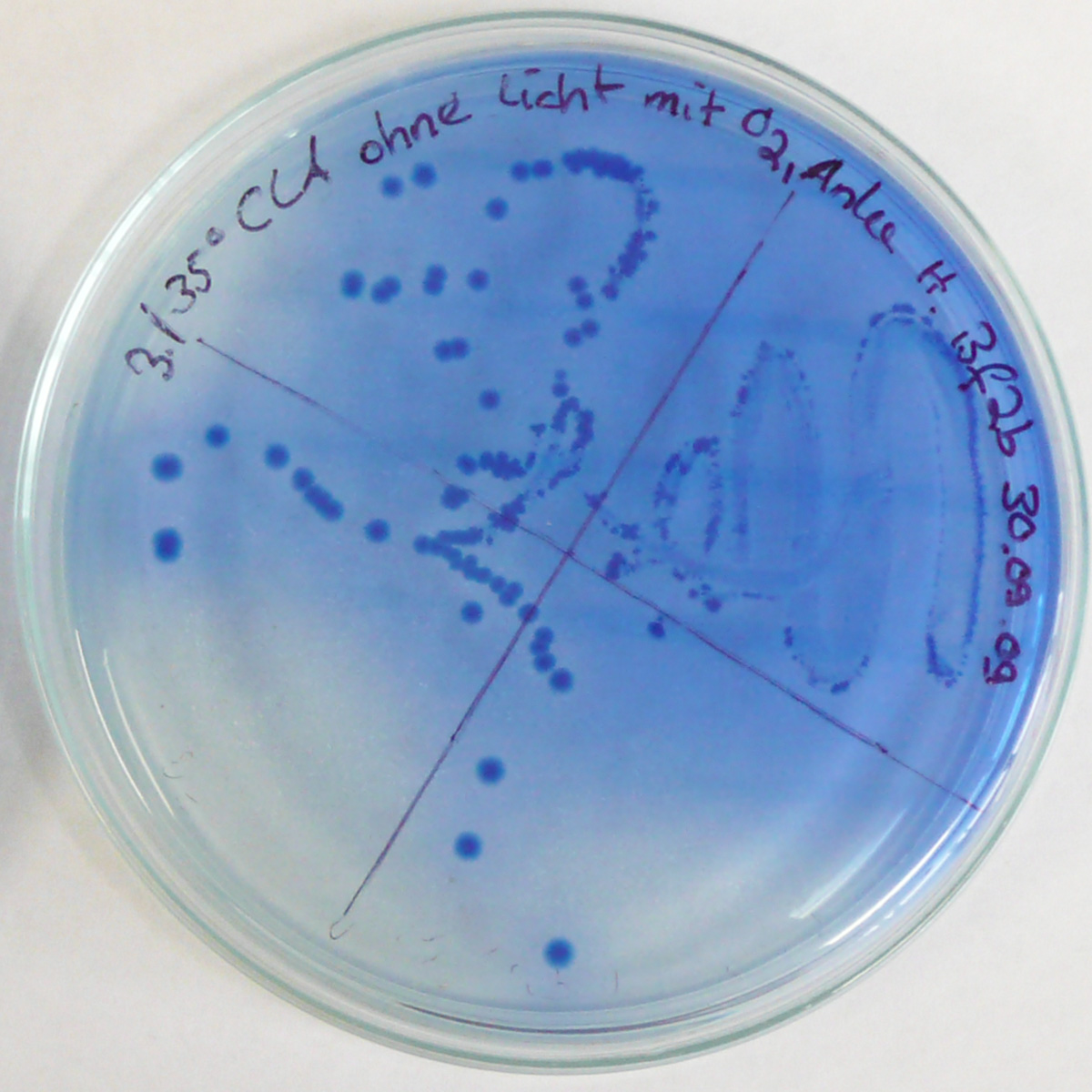 Escherichia coli colonies on China Blue Lactose Agar, after aerobic incubation.